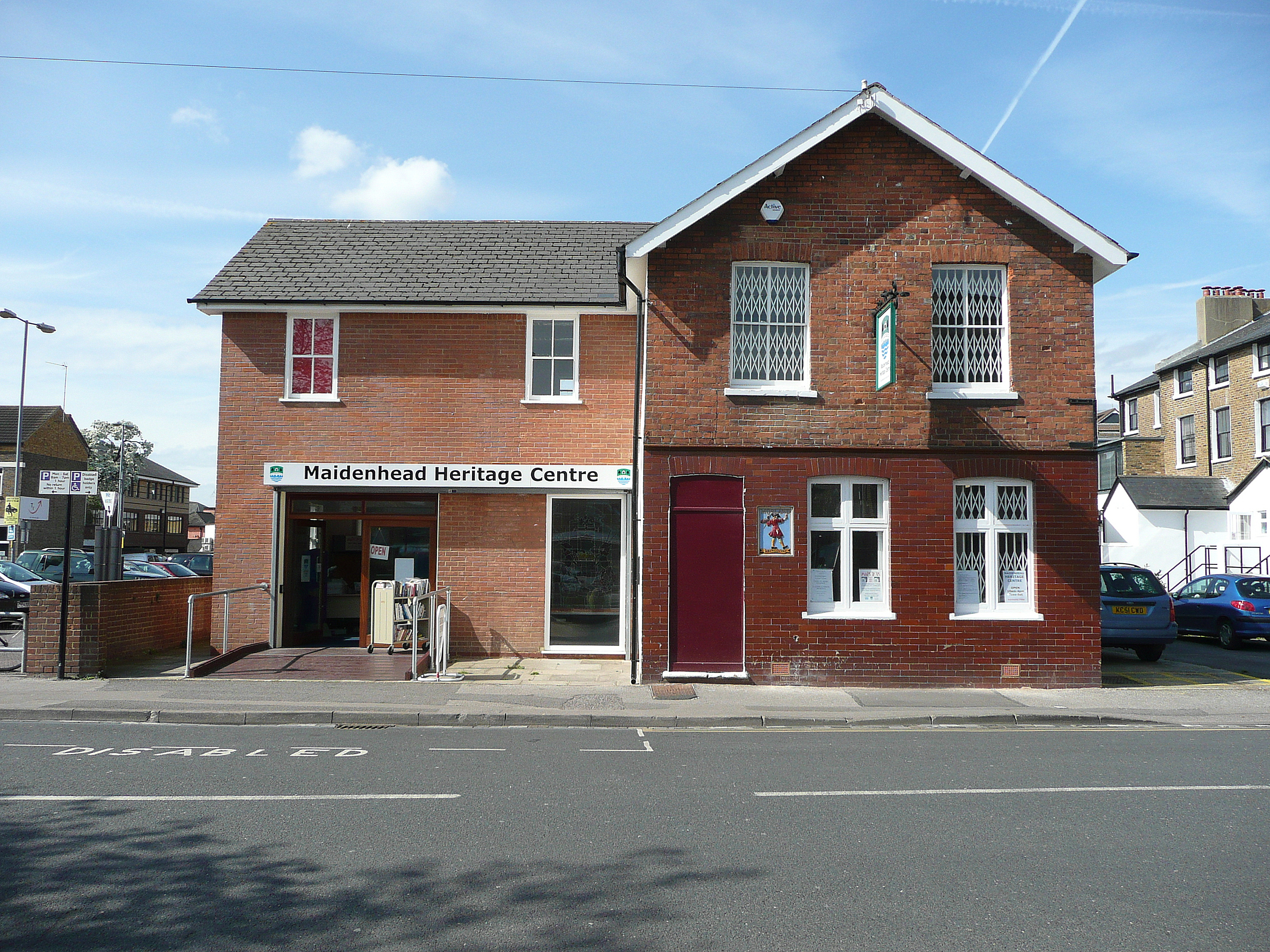 Maidenhead Heritage Centre, near to Maidenhead, Windsor And Maidenhead, Great Britain. View of Maidenhead Heritage Centre in April 2009 after considerable refurbishment.